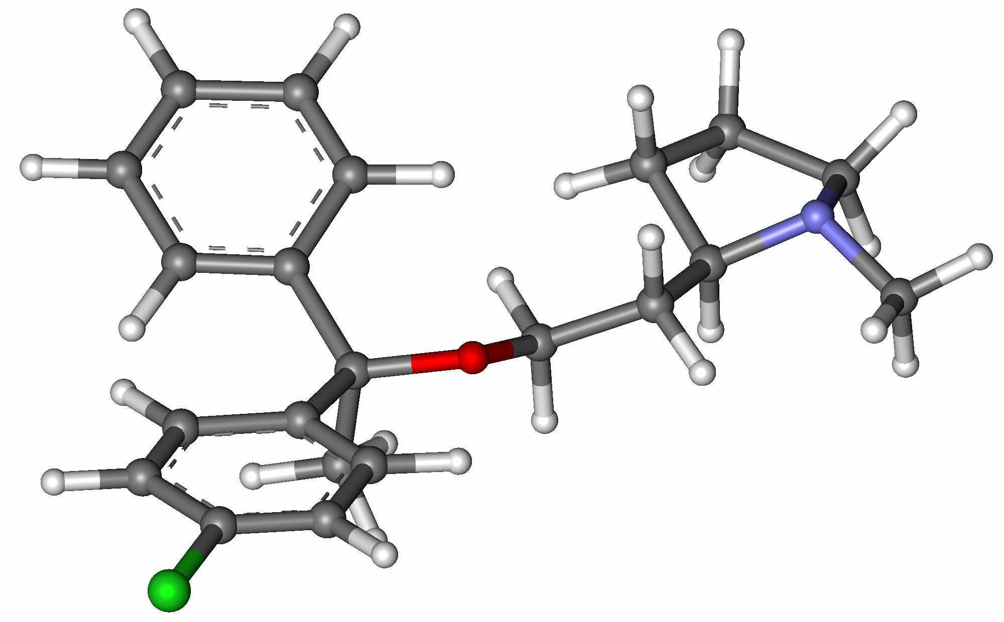 Ball-and-stick model of clemastine molecule. The structure is taken from ChemSpider. ID 25129